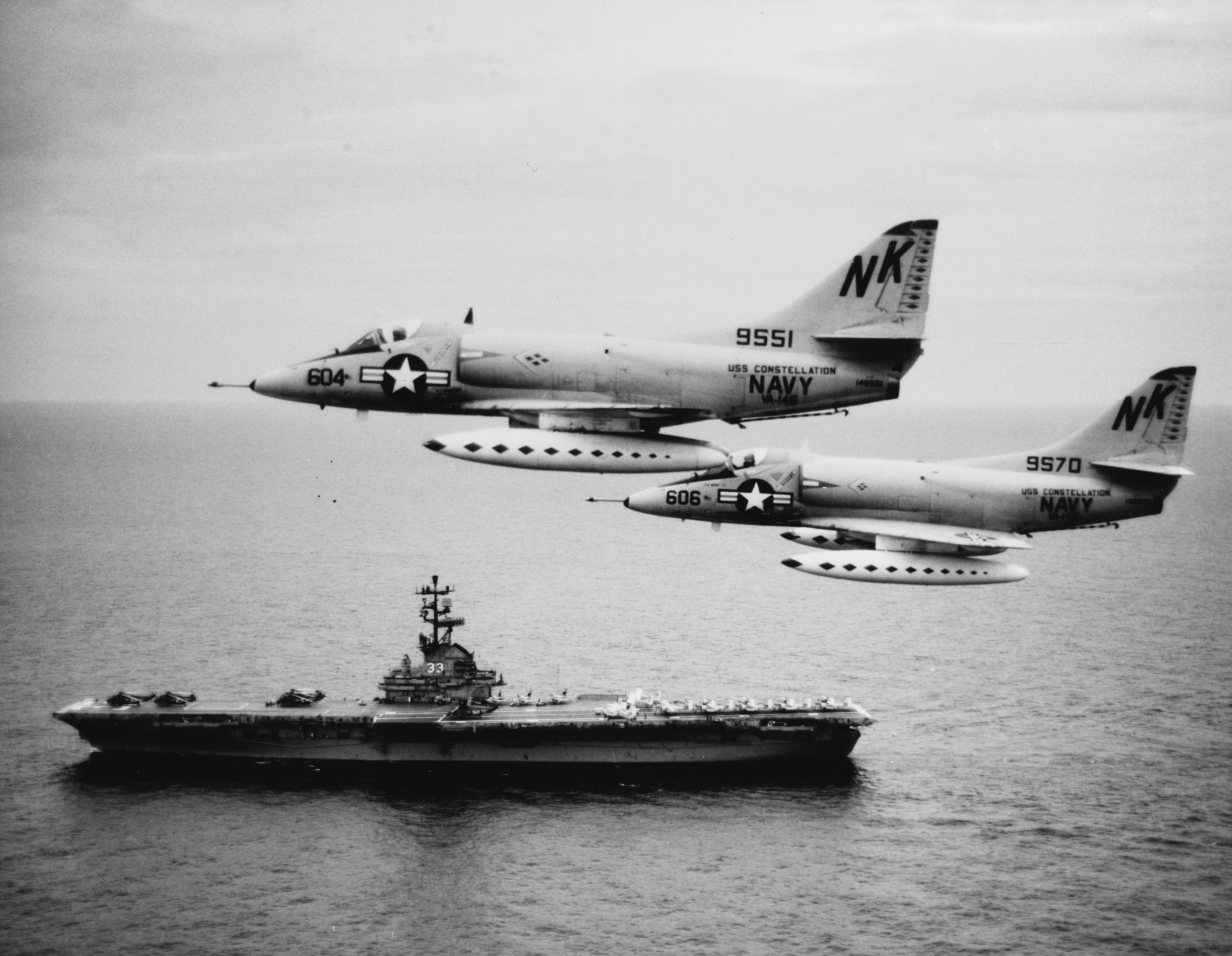 Two Douglas A-4C Skyhawk (BuNos. 149551 and 149570) of Attack Squadron 146 (VA-146) "Blue Diamonds" fly past the anti-submarine aircraft carrier USS Kearsarge (CVS-33). VA-146 was deployed as part of Carrier Air Wing 14 (CVW-14) on board the USS Constellation (CVA-64) to the Western Pacific and Vietnam from 5 May 1964 to 1 February 1965. Planes of CVW-14 took part in the August 1964 strikes against North Vietnamese PT-boat bases as a result of the Tonkin Gulf Incident. Aircraft BuNo. 149551 was later converted to the A-4L standard and in 1982 sold to Malaysia as a A-4PTM. USS Kearsarge, with assigned Carrier Anti-Submarine Air Group 53 (CVSG-53), was deployed to the Western Pacific an Vietnam from 19 June to 16 December 1964.